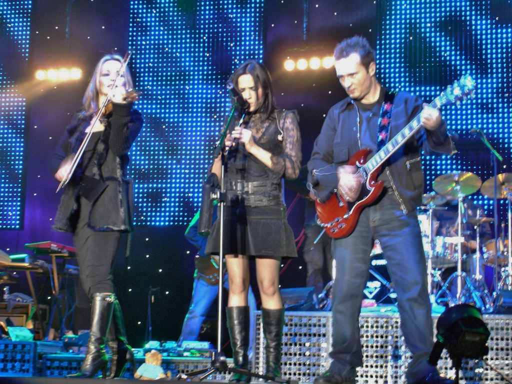 The Corrs